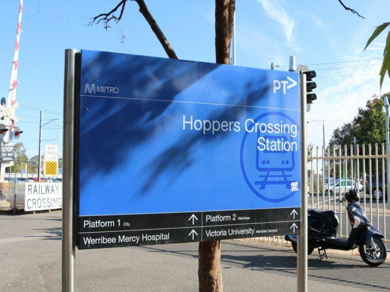 Hoppers Crossing Station